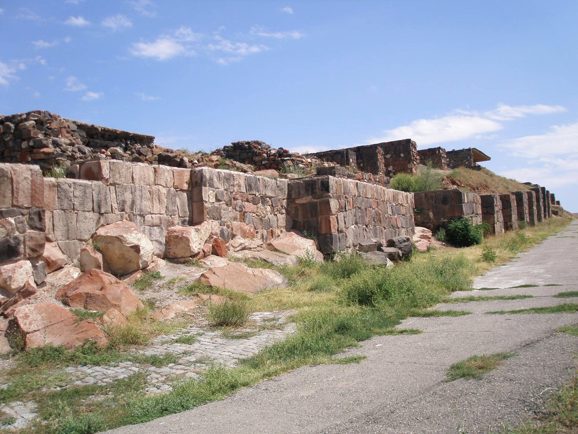 Fortification walls of the citadel of Erebuni.